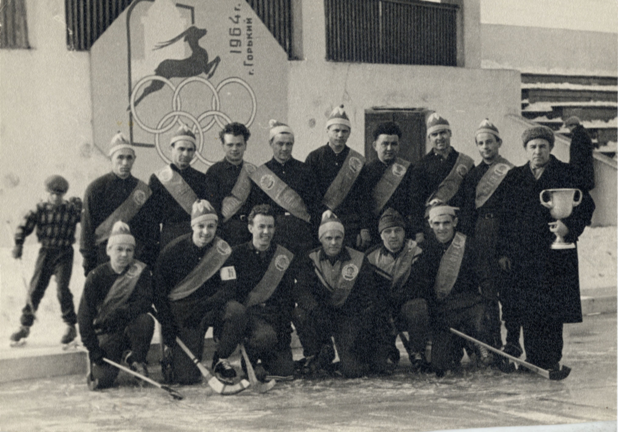 Photo bandy team "START" champion of the RSFSR in 1964